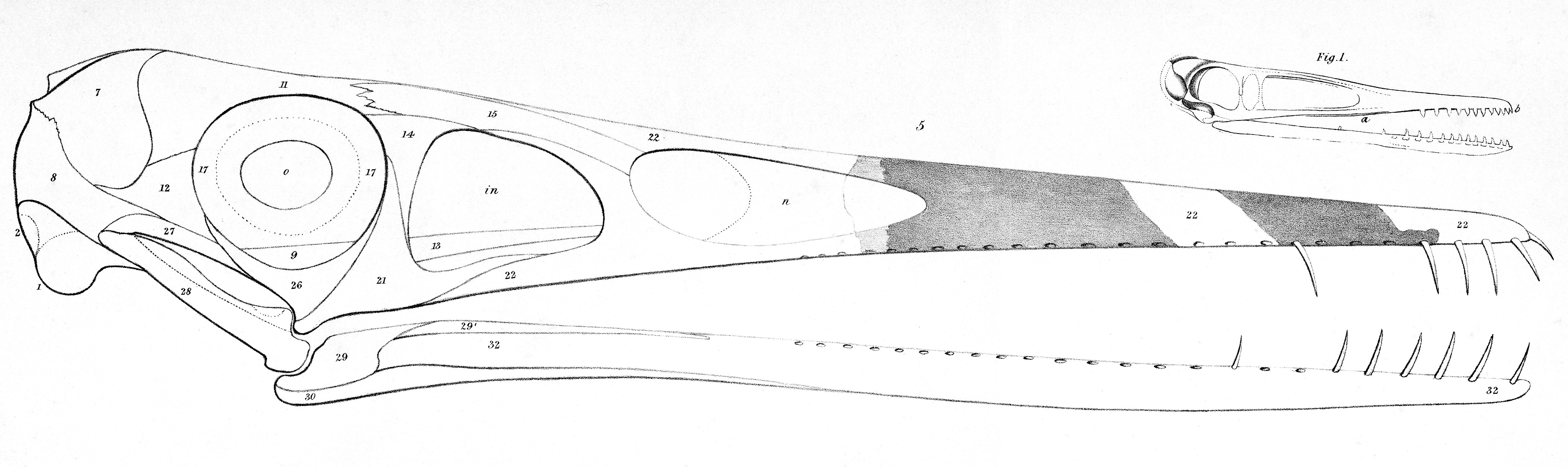 Fig. 1. Skull of Pterodactylus longirostris (after Collini). Fig. 5. Restoration of the skull of Pterodactylus (Lonchodectes) compressirostris. The tinted portions of fig. 5 are from the Middle Chalk of Kent, and are in the Museum of James Scott Bowerbank, Esq., F.R.S.